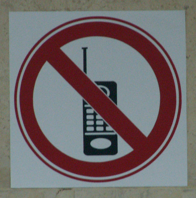 No cellphone sign at Bet-Ariela library